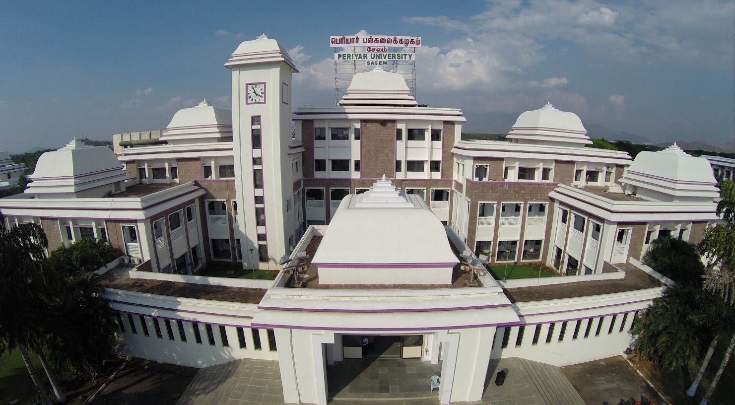 Aerial view of Periyar University, Salem, Tamilnadu, India.